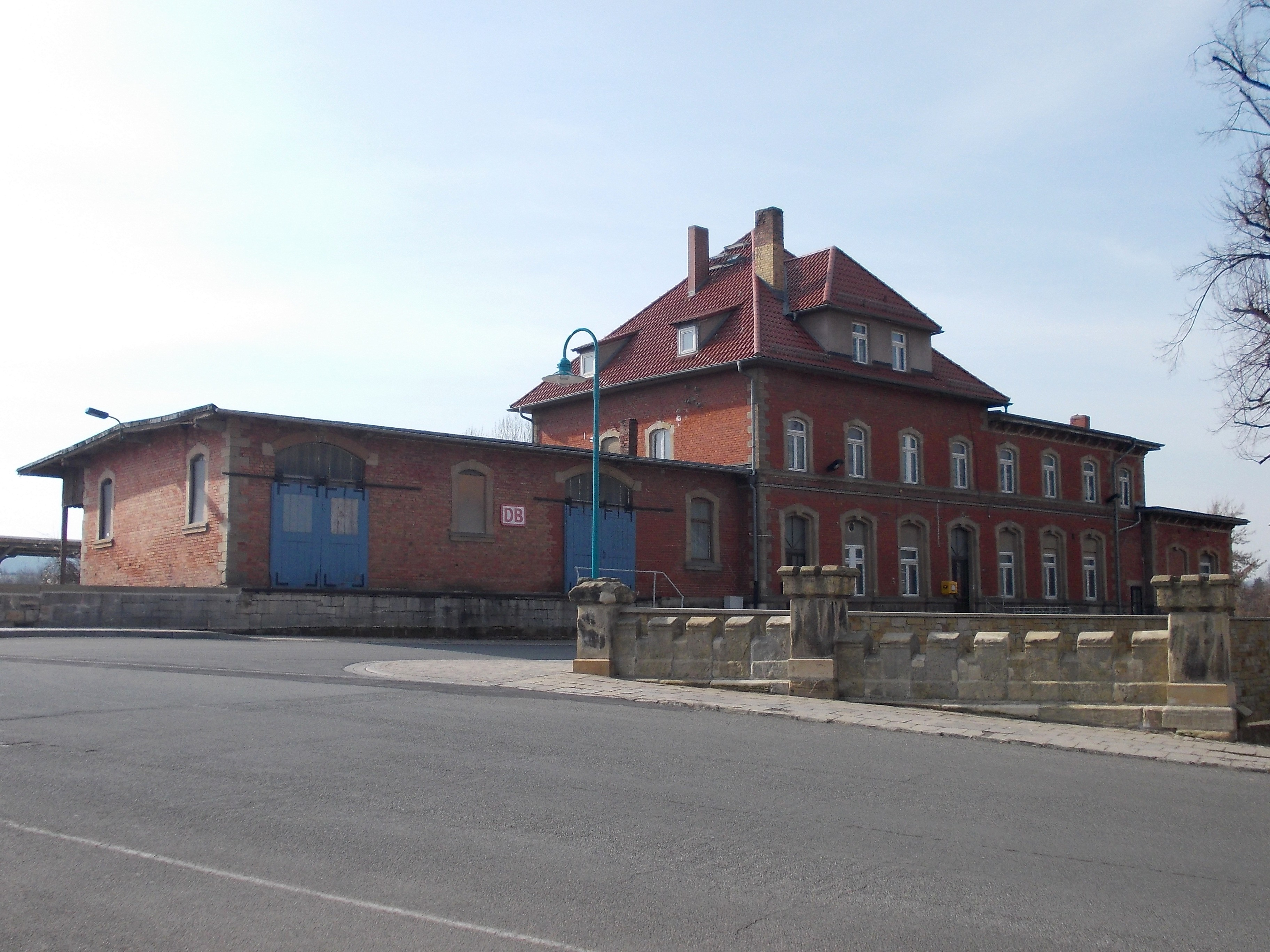 Laucha (Unstrut) train station (district: Burgenlandkreis, Saxony-Anhalt)